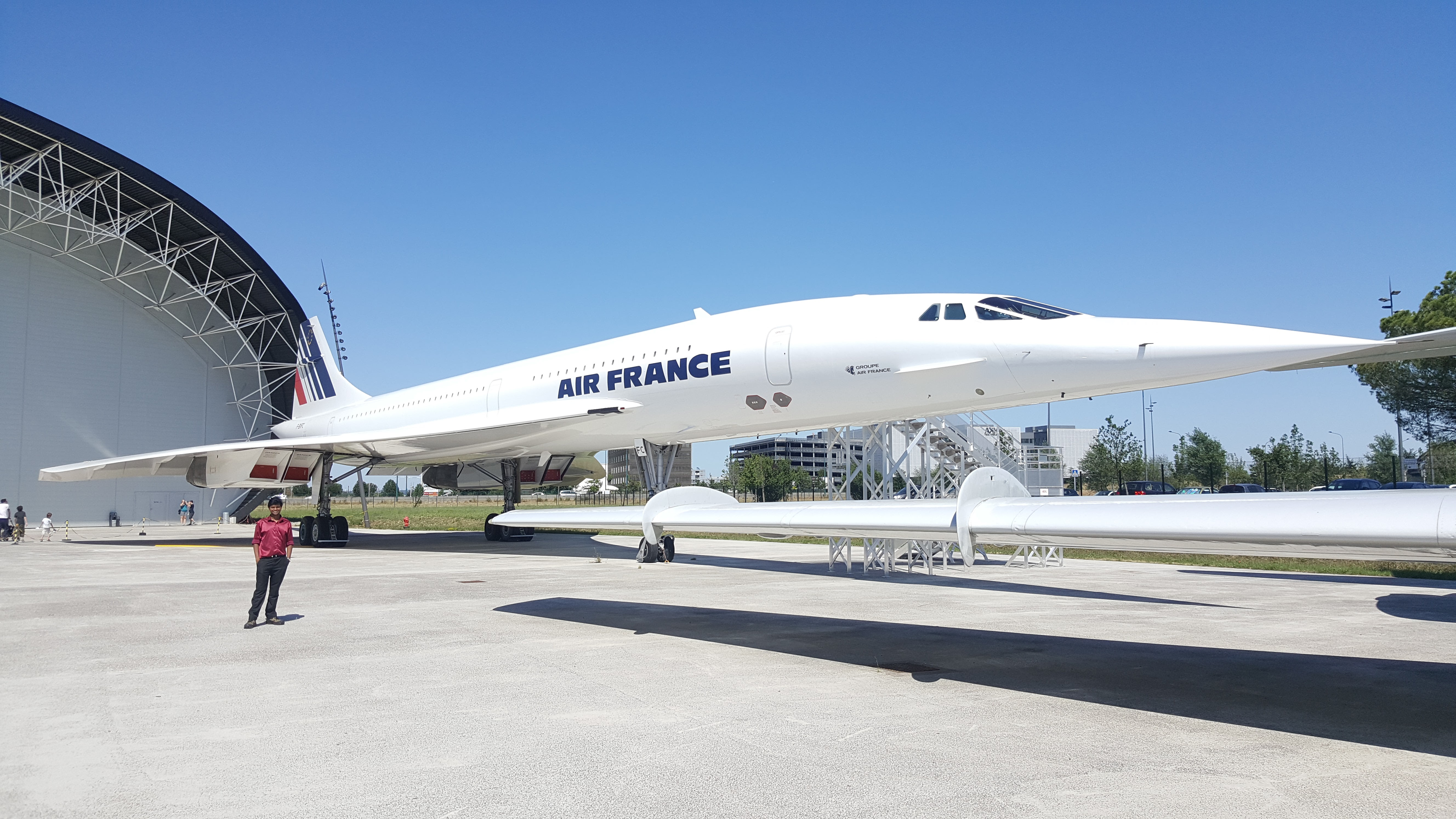 Concorde on display at Toulouse, France.